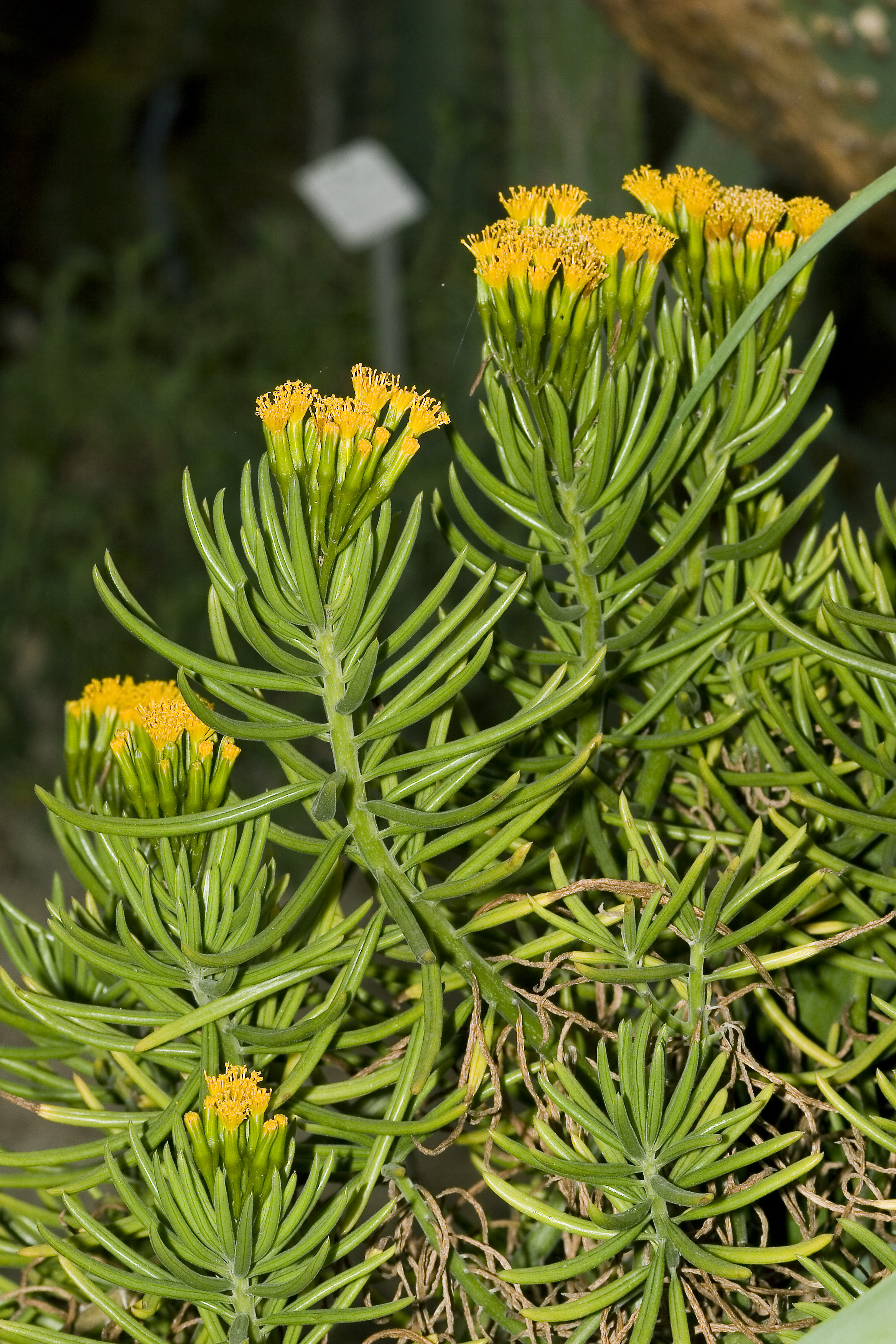 Senecio barbertonicus Location: Botanical Garden, Dresden (Saxony, Germany) 5/180L f16 Film / Speed: ISO 100 Comment: Canon Flash 580EX